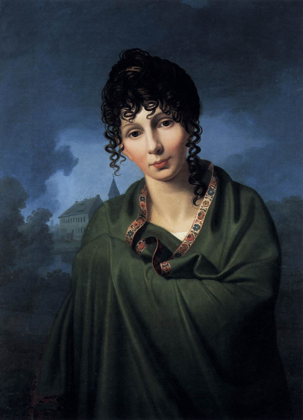 Wrapped in a cashmere shawl, her manor glimpsed in the background, Countess Luise von Voss's (1780-1832) presentation in semi-grisaille recalls early Ingres.